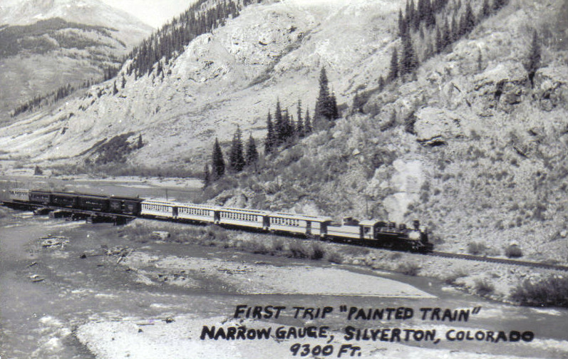 Postcard photo of the first trip of the "Painted Train" on the narrow gauge Durango and Silverton Railroad in Colorado. The painted train was an effort to promote the line for tourism which was successful enough to continue today.